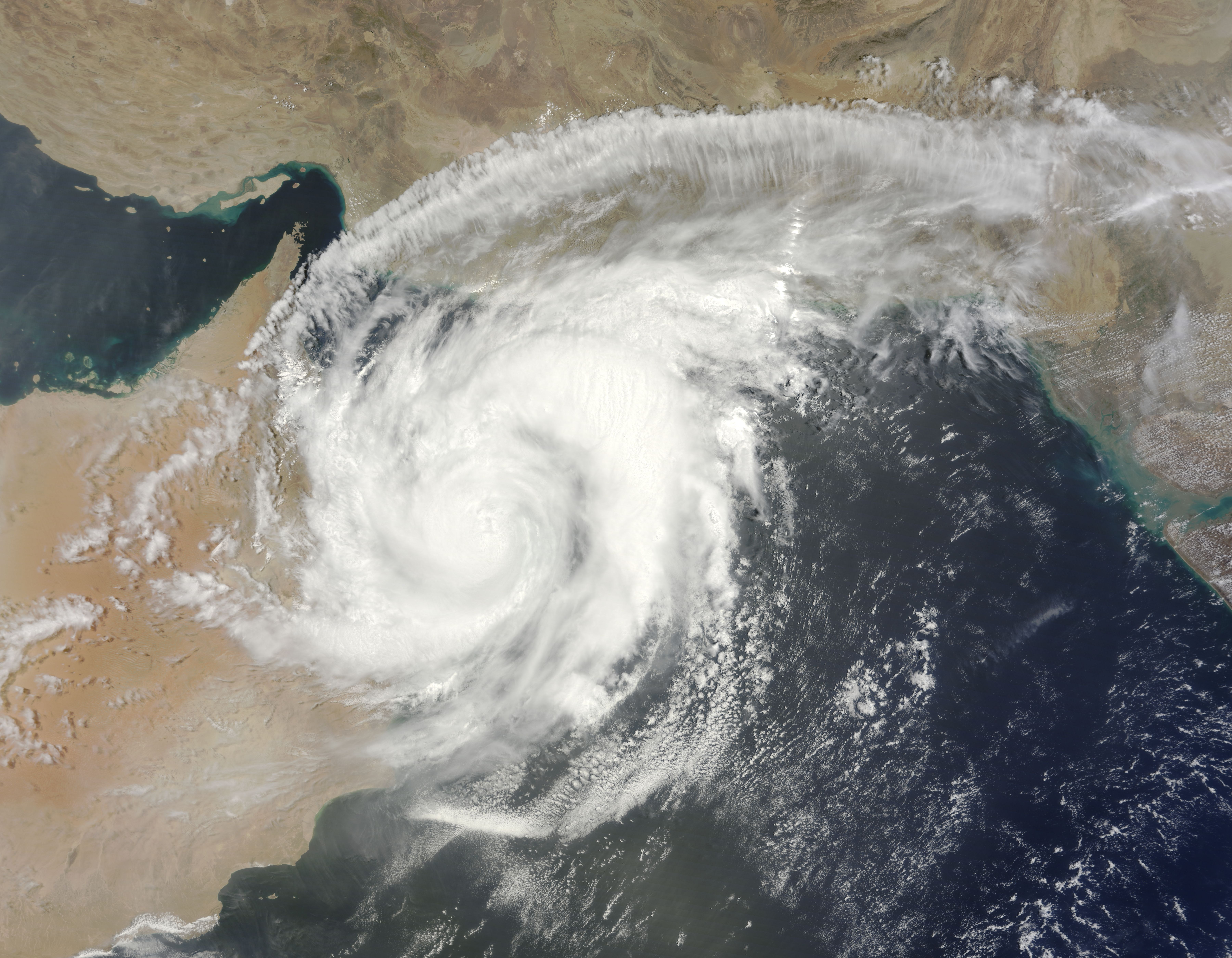 Once a powerful Category 4 storm, Cyclone Phet had weakened to a Category 3 storm by the time it came ashore over Oman on June 4, 2010. The Moderate Resolution Imaging Spectroradiometer (MODIS) on NASA’s Terra satellite acquired this photo-like image of the storm at 10:40 a.m. local time on June 4. By that time, Phet had degraded into a Category 1 storm with winds of about 75 knots (140 kilometers per hour or 86 miles per hour). The storm’s swirling clouds cover most of northern Oman and all of the Gulf of Oman in this image. Though it is partially over land, the storm maintains a distinctive spiraling shape. In its northward trek over the Arabian Sea, Cyclone Phet gave Oman a glancing blow, cutting across the northeast edge of the country. The Joint Typhoon Warning Center forecast that the storm would re-emerge over the Gulf of Oman late on June 4 or early June 5, and move east towards Karachi, Pakistan, as a tropical storm.